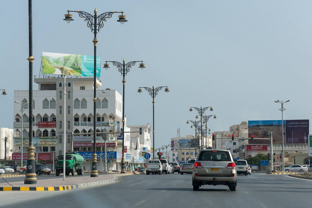 An Nahdah Street in Salalah, Dhofar.